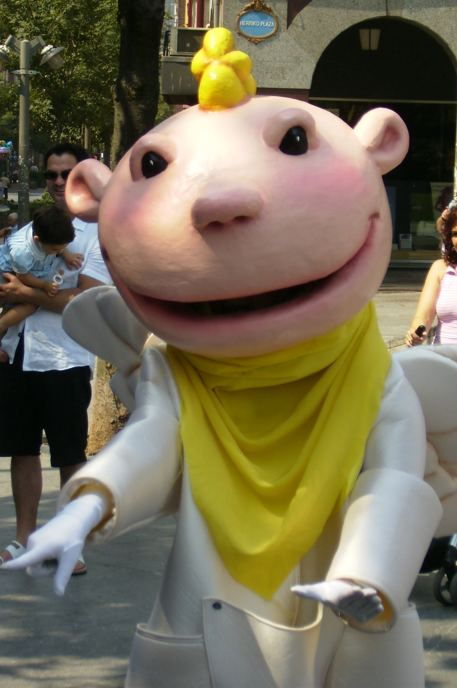 Jolin! The symbol of Barakaldo Fiesta